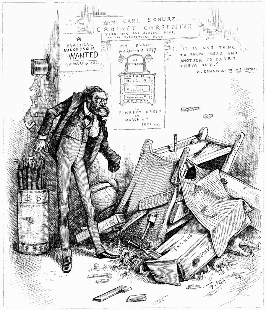 U.S. Secretary of the Interior Carl Schurz is putting on his coat as he prepares to leave the Interior Department for good. The Indian "Bureau" is in ruins. Notices on the walls comment on his progress during his term.